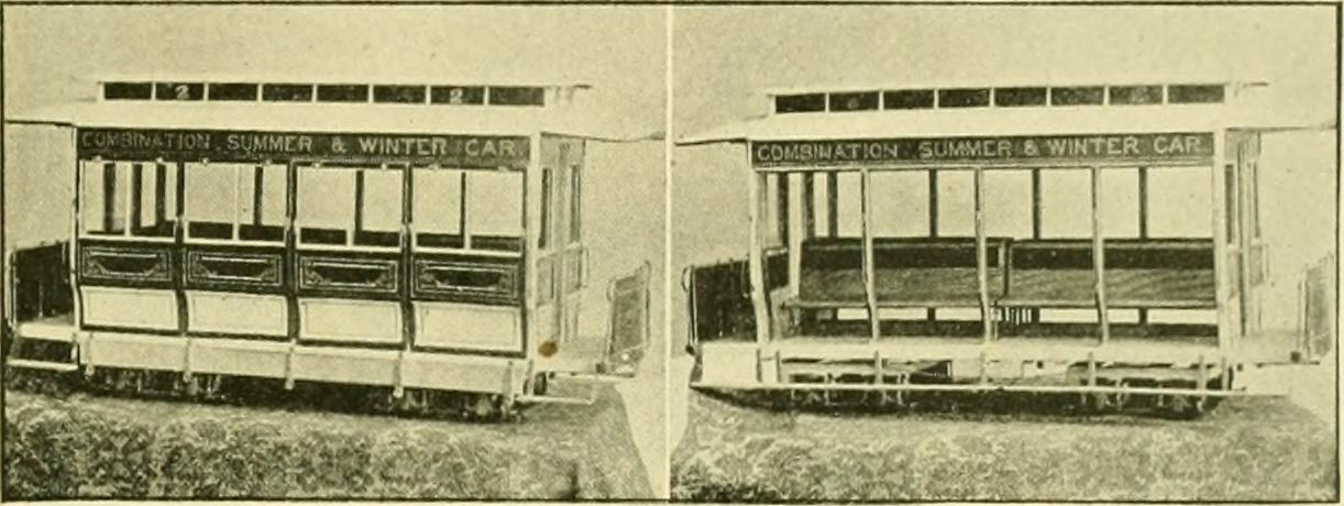 Title: The street railway review Year: 1891 (1890s) Authors: American Street Railway Association Street Railway Accountants' Association of America American Railway, Mechanical, and Electrical Association Subjects: Street-railroads Publisher: Chicago : Street Railway Review Pub. Co Text Appearing Before Image: , NewYork; Charles T. Yerkes, Esq., president North Chi-cago Street Railway Company, Chicago; John B. Par-sons, Esq., vice-president and manager West ChicagoStreet Railway Company, Chicago; A. Langstaff John-ston, C. E., Richmond, Va.; J. Vernon Campbell, Esq.,Baltimore, Marjland; E. S. Moffat, Esq., superintendentLackawanna Iron and Steel Company-, Scranton, Pa., andmany others. itSii S^mlM;&^ %rte«?:- 401 Coi;: Text Appearing After Image: Schneiders Combination Cars.lONSIDERABLE interest has been awakened oflate ill new styles of building street cars, growing)Ul of the great activit)- in railway constructionand the desire of new roads to put in service an equip-ment which shall please the fast-increasing great army ofriders. This has had a tendency to cause the old stylecars, which had for so long a time been considered prettynice, to gradually become back numbers, until now everymanager is anxious to iinpro\e and keep up with thetimes. To meet the demand from many roads for some methodof reconstructing their old cars, and also to accommodatethose smaller companieswho desire open andclosed cars but who donot feel justified in main-taining two full equip-ments of rolling stock,has lead J. G. Schneiderof Chicago to patent twotypes of adjustable car. One is the winter carwhich may readily be co.v.iii.vATioN close. converted to an open car by the removal of the outerpanels which are made in sections and held in place atthe